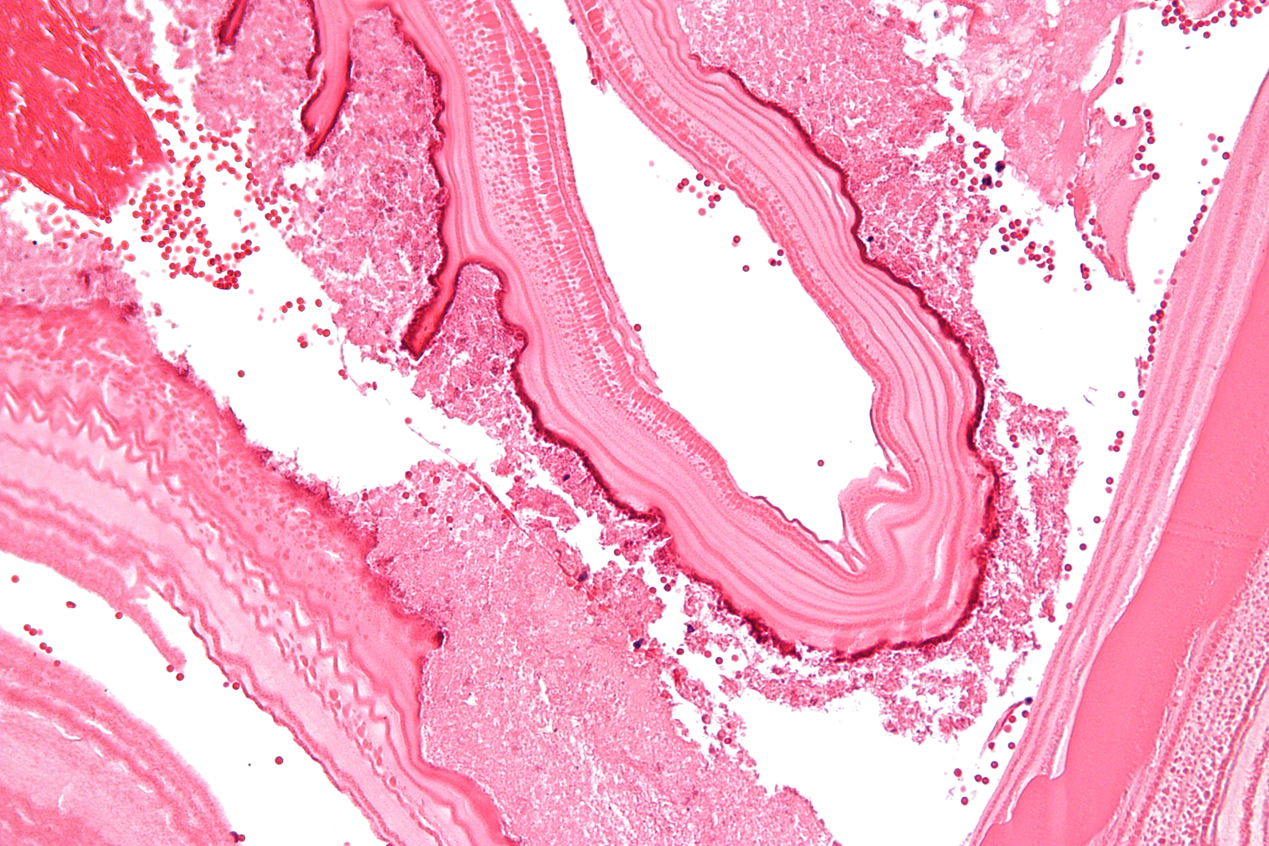 High magnification micrograph of a liver cyst wall with laminations consistent with those seen in an Echinococcus infection (hydatid disease/cyst). Liver cystectomy. H&E stain. No organisms are seen in the images and none were detected (elsewhere) by histopathology, presumably due to medical treatment prior to cystectomy. The laminated portion of the wall (seen in the Laminated liver cyst wall images) was separted from the the piece with liver (seen in the Liver cyst wall images). Related images Low mag. Intermed. mag. High mag. Intermed. mag. High mag.